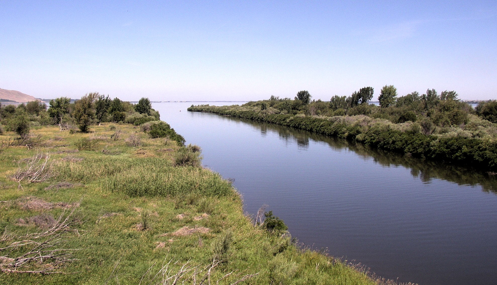 Photo of the Walla Walla River as it joins the Columbia River (Columbia River) at Wallula in Washington state. The photo is taken looking to the west from the railroad bridge over the Walla Walla. The Columbia flows from North (photo right) to South (photo left). The Wallula Gap is just to the left offscreen. The far shore is Benton County, Washington. Photo taken by uploader on July 8th, 2006. All rights released. Williamborg 03:47, 9 July 2006 (UTC)